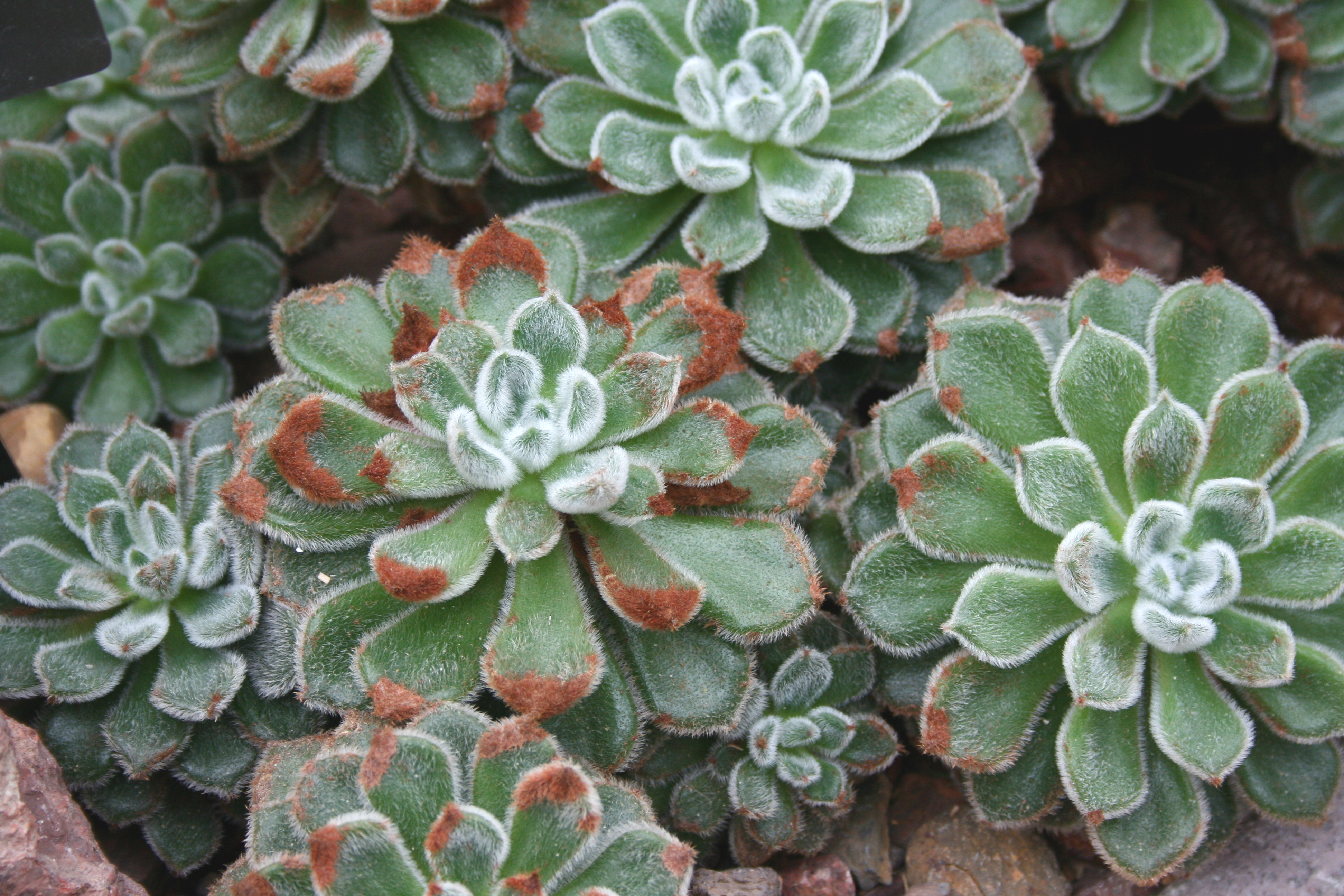 Mexican fire cracker (Echeveria setosa) at Frederik Meijer Gardens & Sculpture Park.